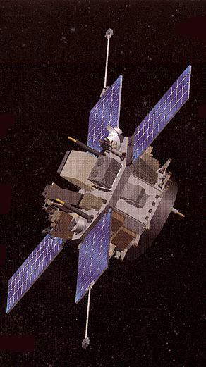 Representation of the Advanced Composition Explorer space.